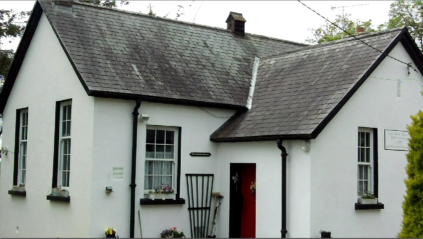 John McGahern attended this school in the late 1930s/early '40s. His mother taught here until her death in 1944 when John was 10 years old